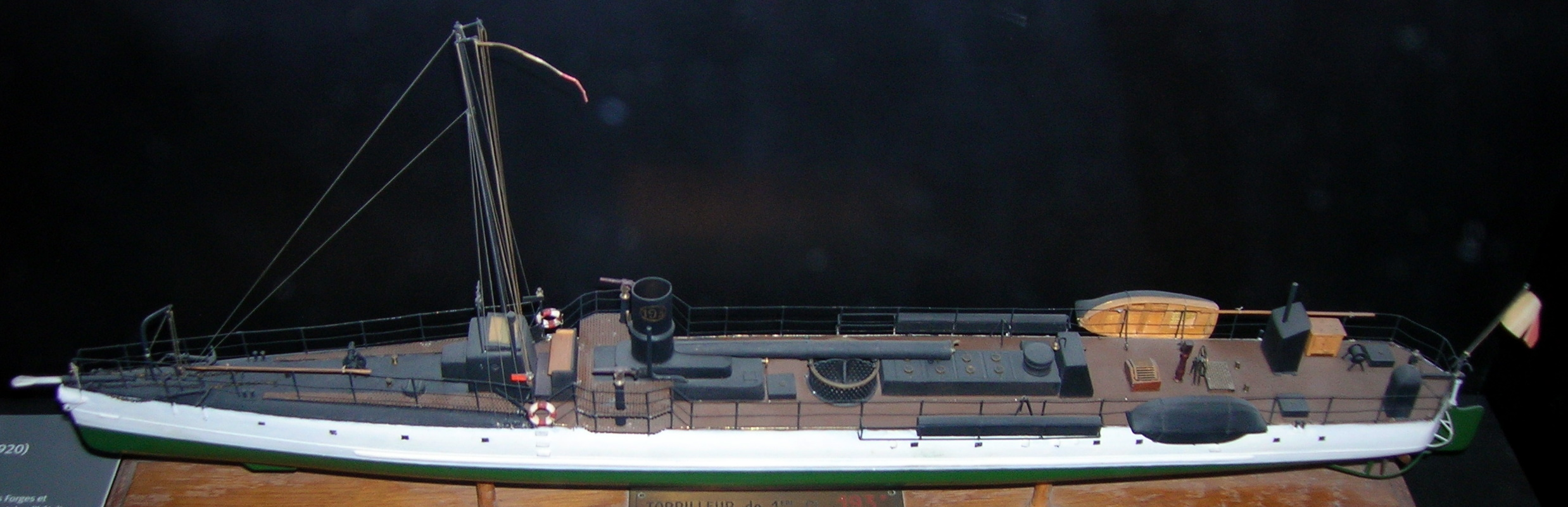 Model of torpedo boat n°193.